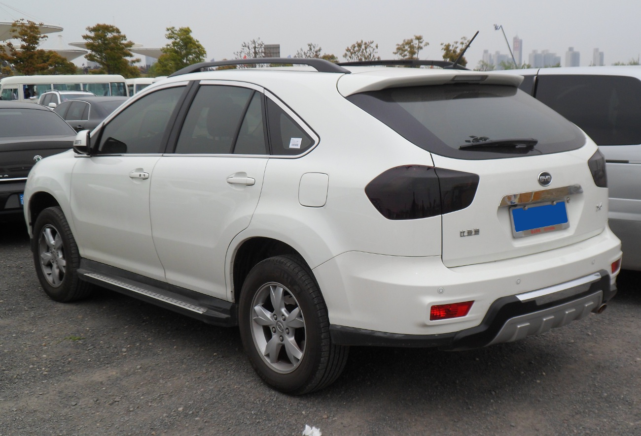 BYD S6 photographed in Anting, Shanghai municipality, China.